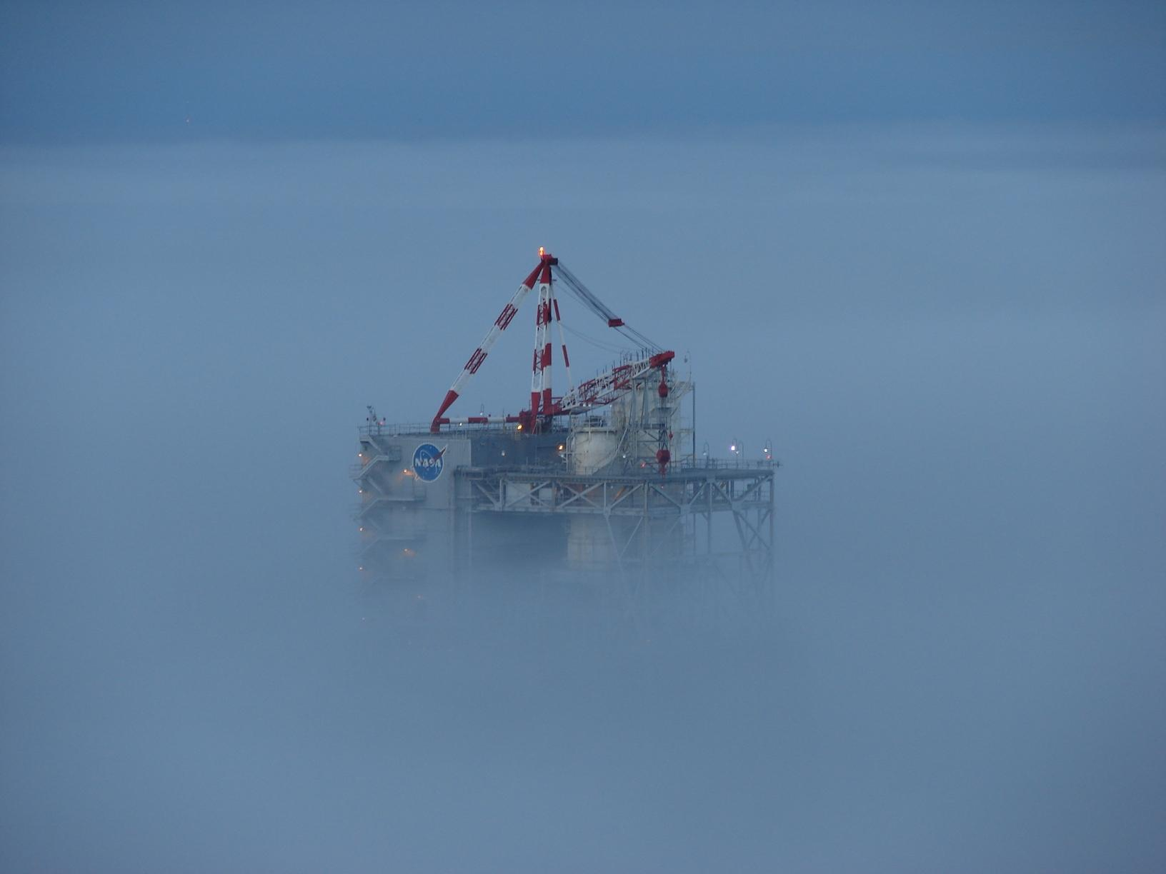 At Stennis Space Centre, three large engine test stands were built the early 1960s to test the first and second stages of the Apollo Saturn V rocket that carried Americans to the moon. Since 1975, the test stands have supported testing of the Space Shuttle main engines. The last planned test was conducted in July of 2009. In this photo, the A-2 Test Stand peered out from a thick blanket of fog during the early morning hours. This photo was taken from the top of the B Test Stand. The A-1 and A-2 test stands are transitioning to support J-2X engine testing for the Constellation Program, while the B-1/B-2 test stand will support stage testing. For the first time since the 1960s, a new test stand, called A-3, is under construction with a scheduled completion date of 2011. The A-3 test stand will be 300 feet tall and will enable engineers to conduct simulated high-altitude testing up to 100,000 feet.